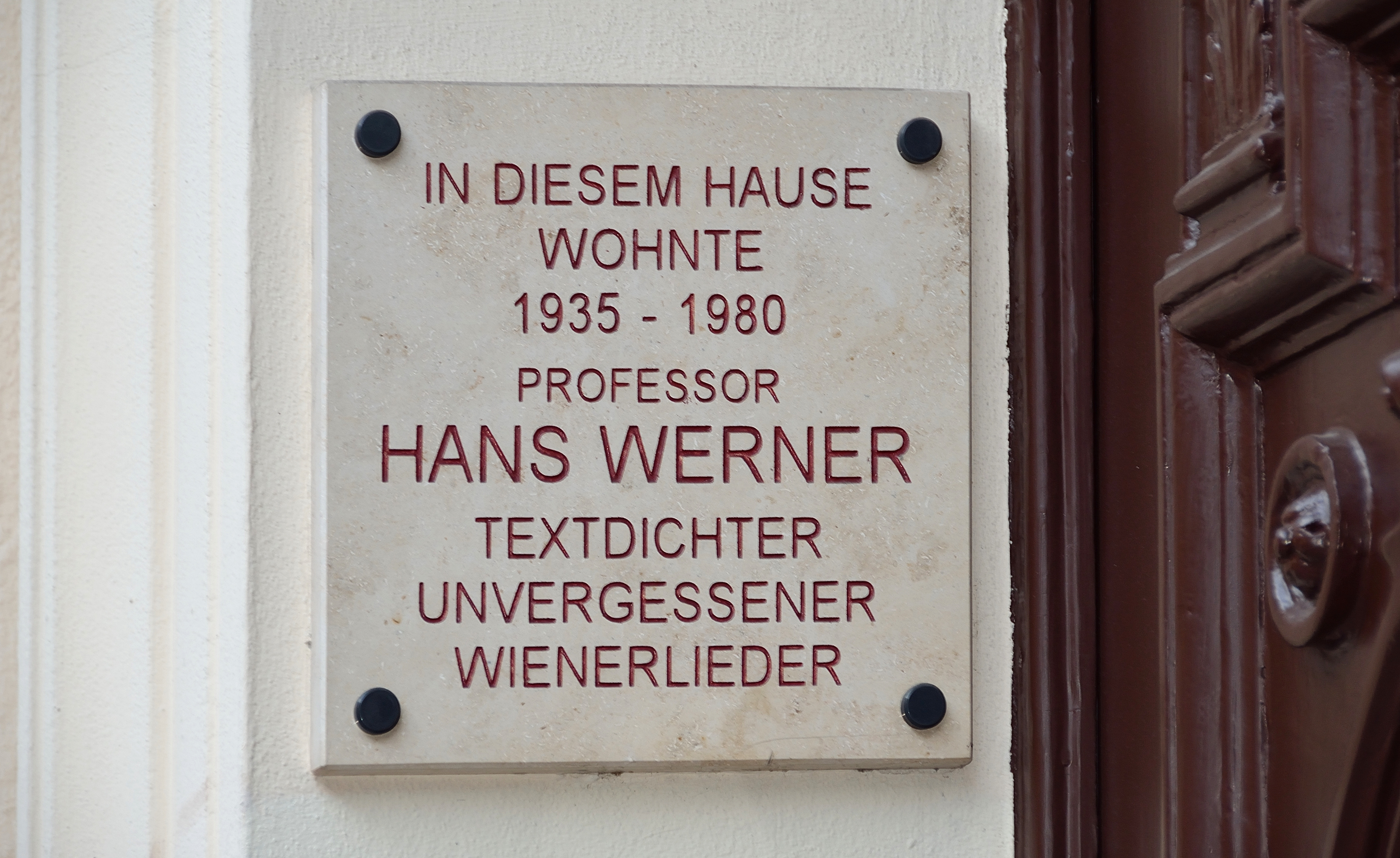 Hans Werner (1898-1980) was a writer of Wienerlied